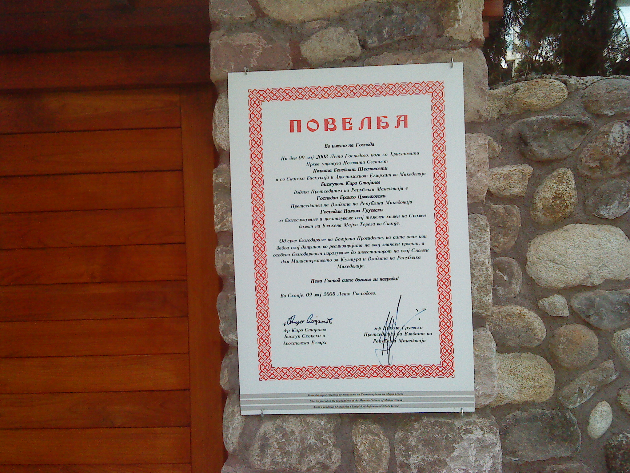 Mother Teresa Memorial Home, Skopje